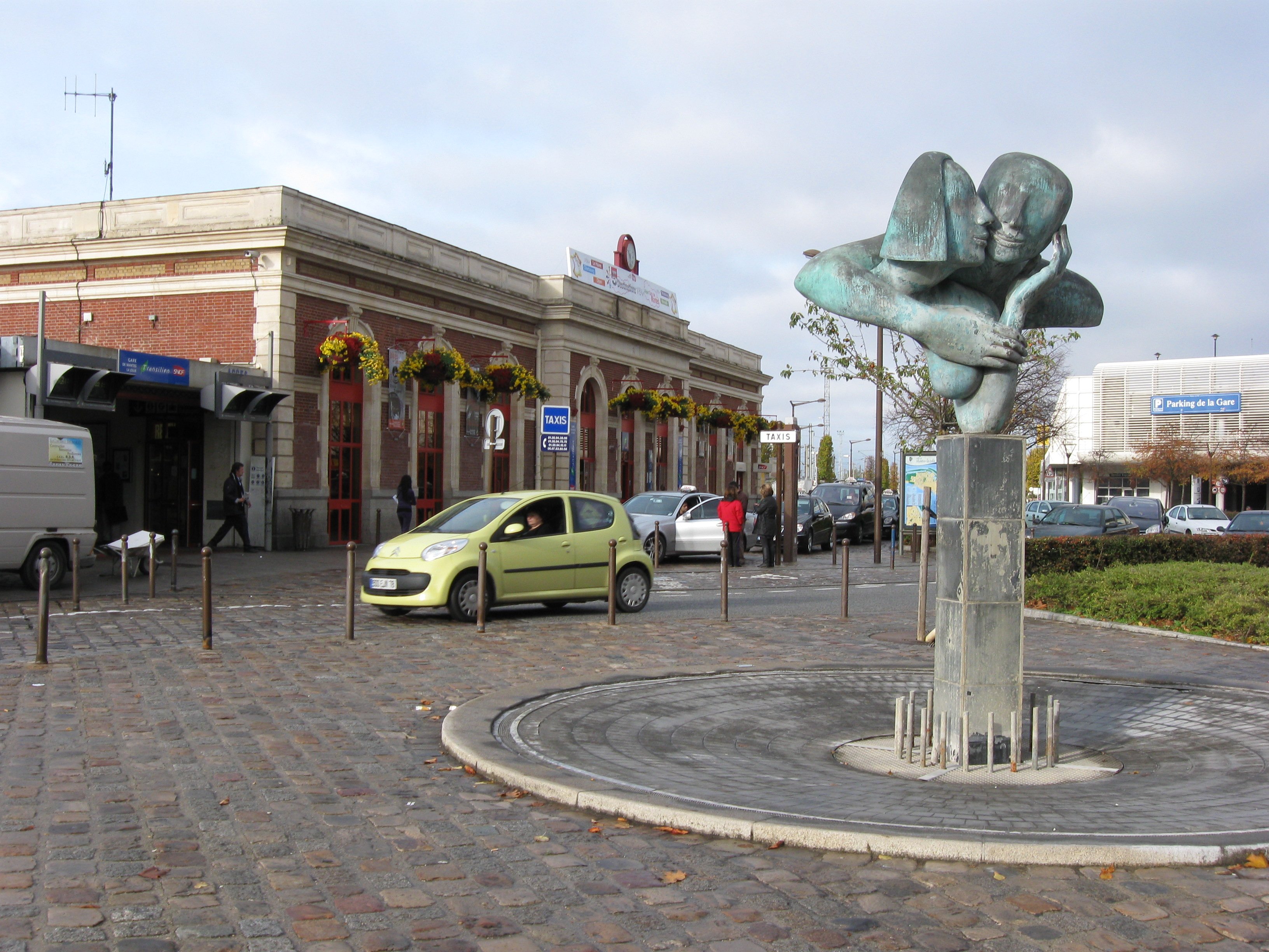 Mantes-la-Jolie rail station